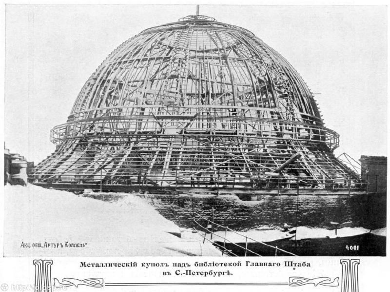 Construction of the dome of the Army Headquaters Historical Library in St.Petersburg